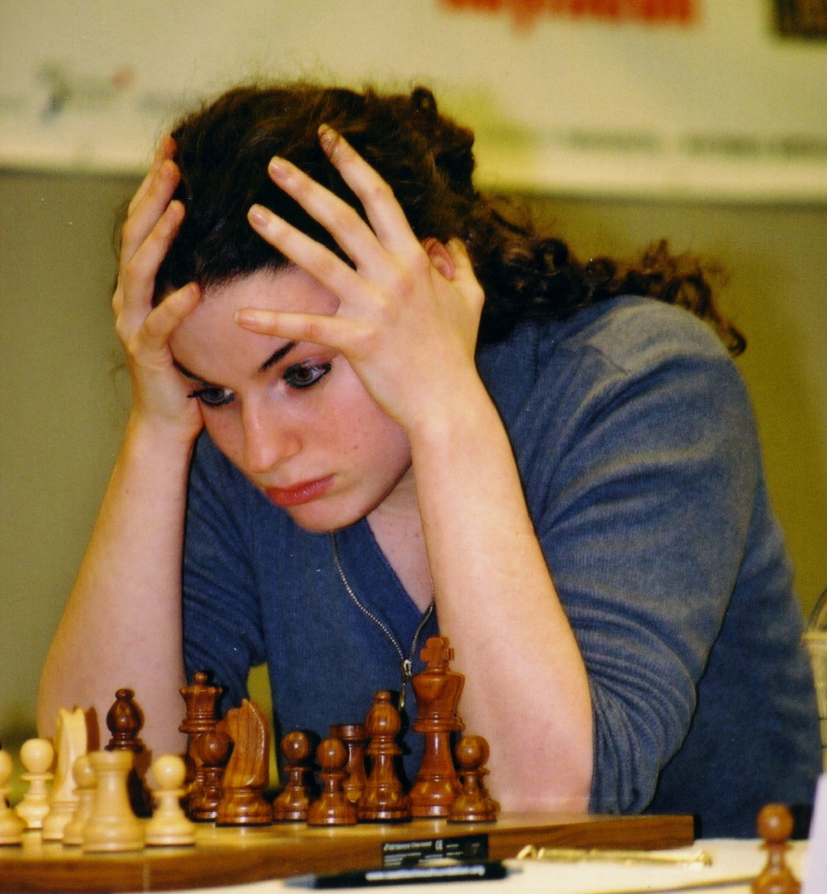 Jennifer Shahade at the 2002 U.S. Chess Championships in Seattle, Washington.